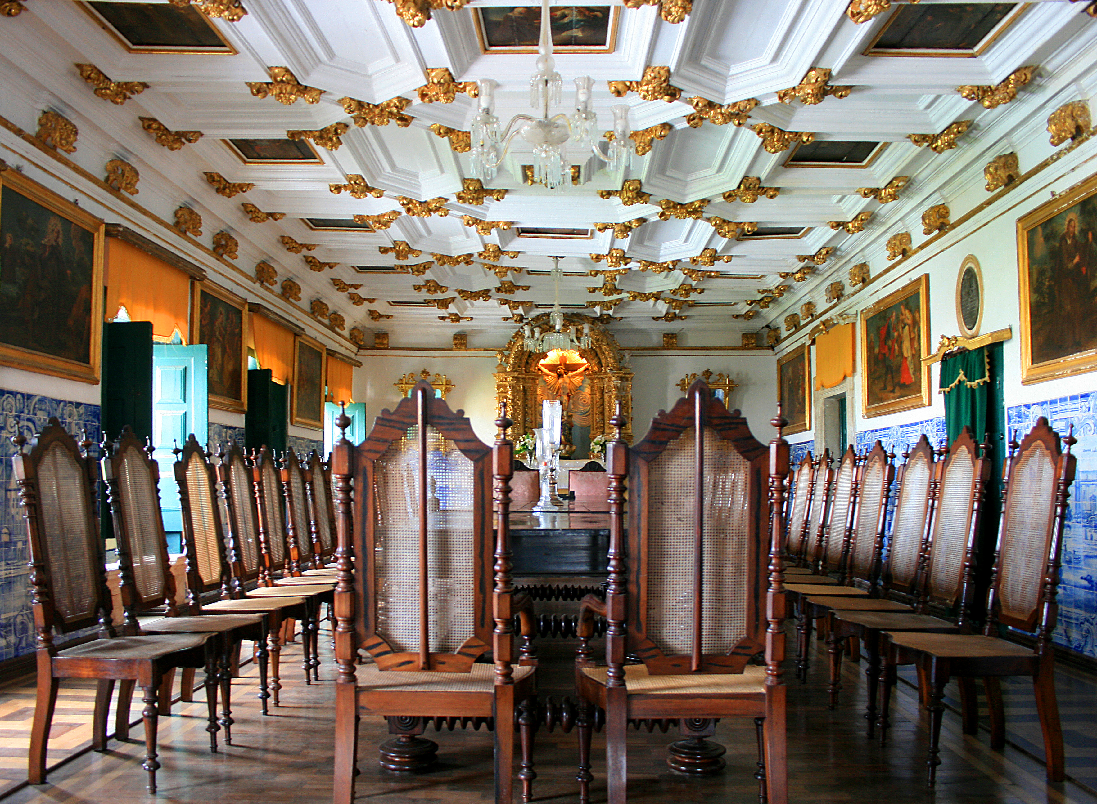 Sacristry of the Church of the Terceiros de São Francisco in Salvador, Brazil